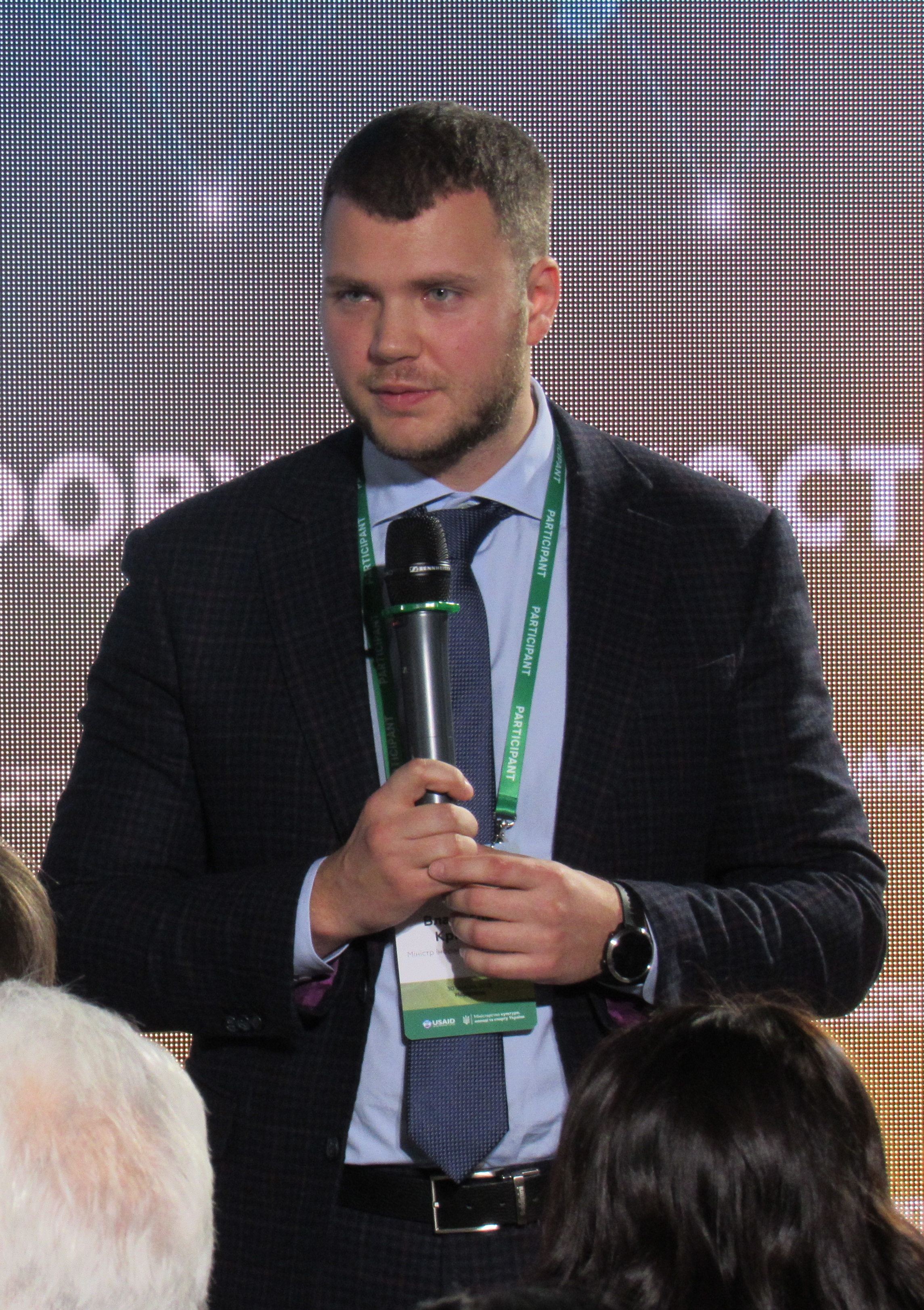 Minister of infrastructure of Ukraine Vladyslav Krykliy. Unity Forum in Mariupol, October 30th, 2019.